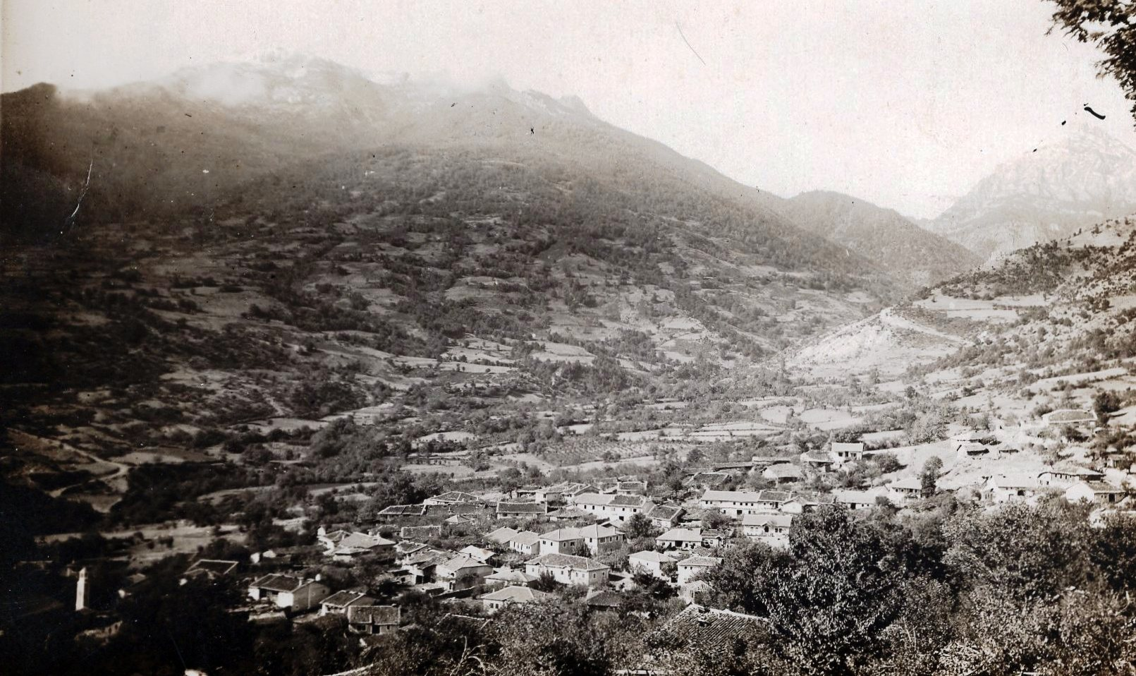 Village Konjsko, Gevgelija, 1931 This media file is produced by Wikipedian in Residence in Category:Wikipedian in Residence at DARM in 2016.